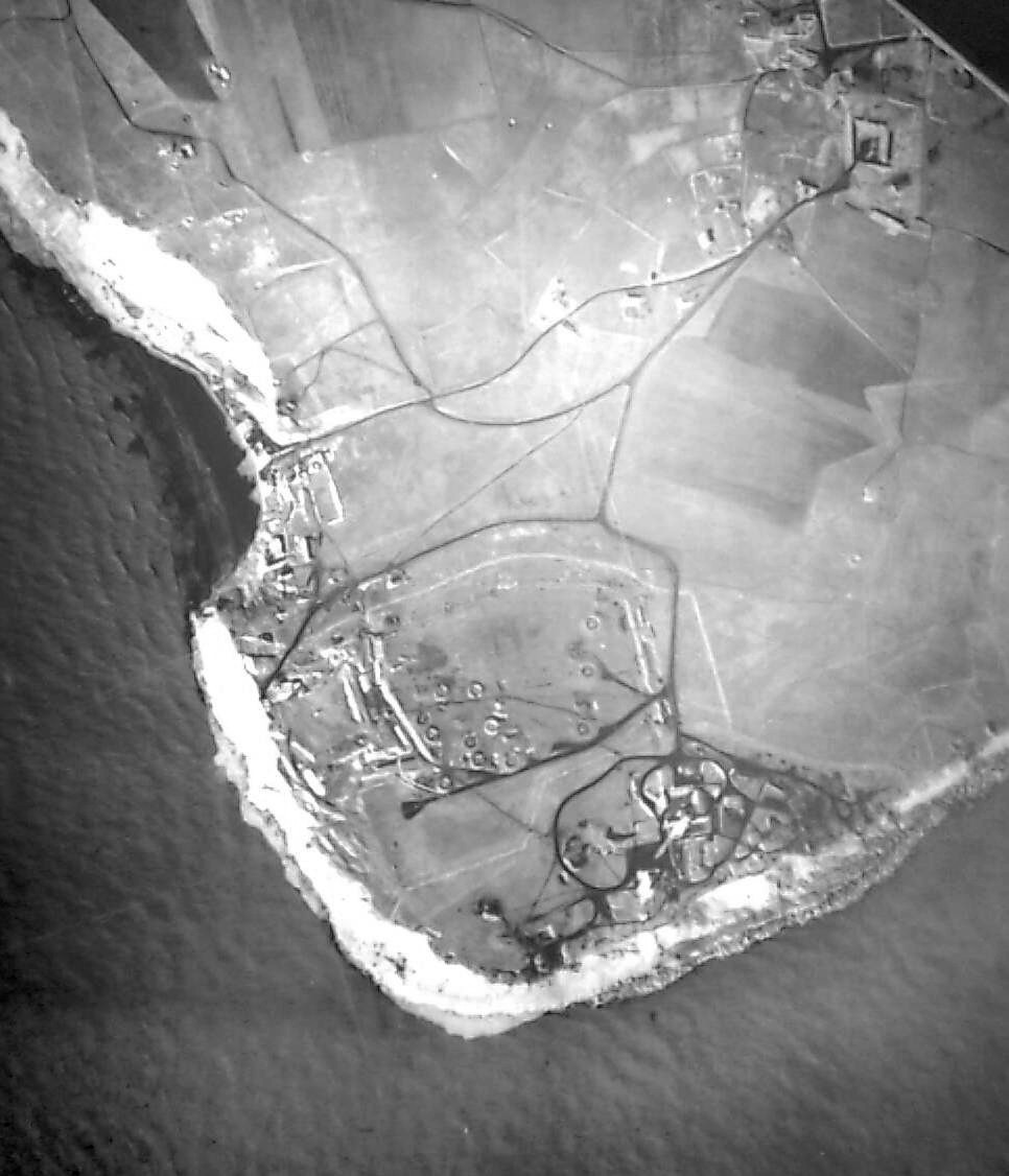 This is a photo of Cap Gris Nez Before opération Undergo 26 sept 1944